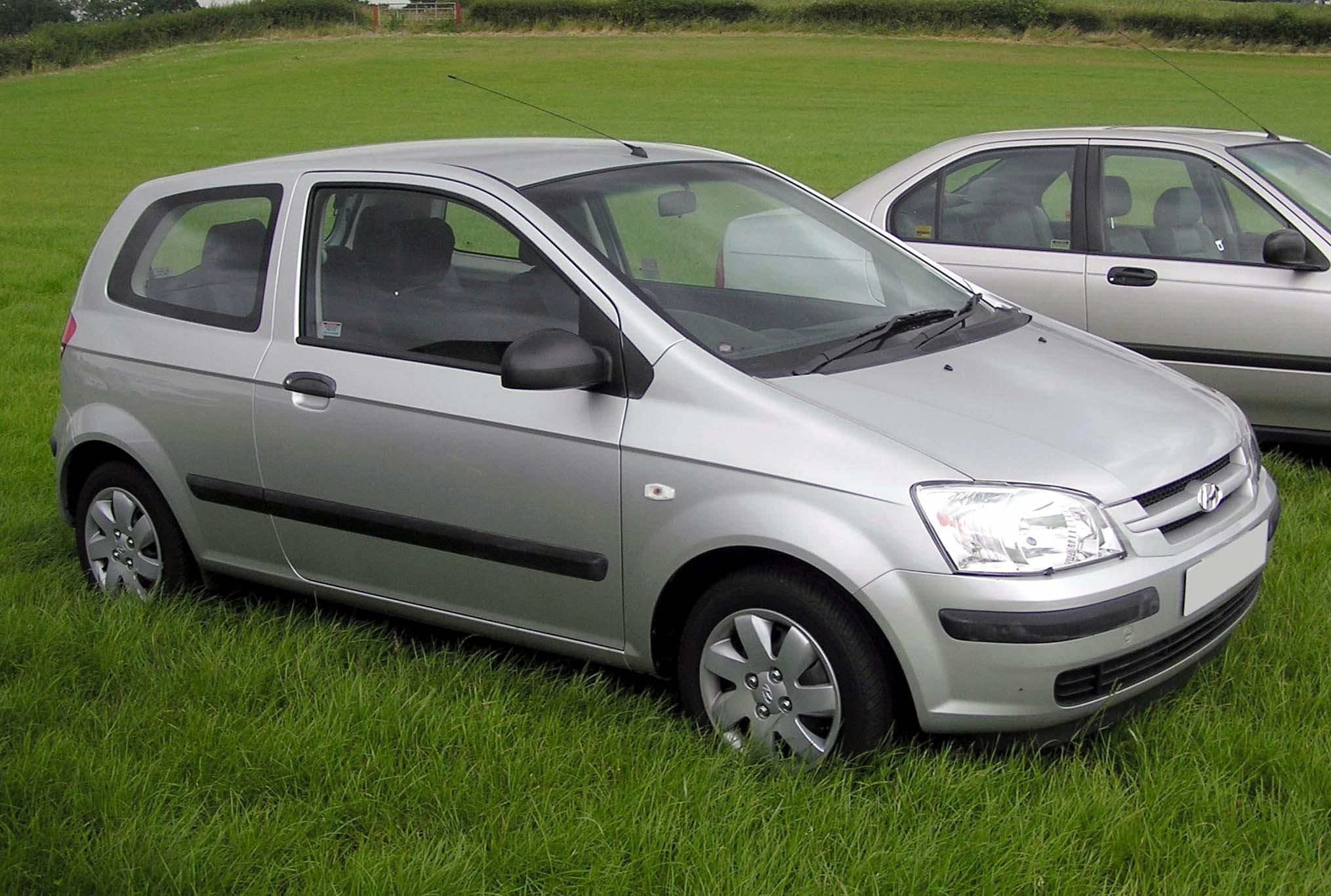 2004 Hyundai Getz at Coalpit Heath car show, near Bristol, England.